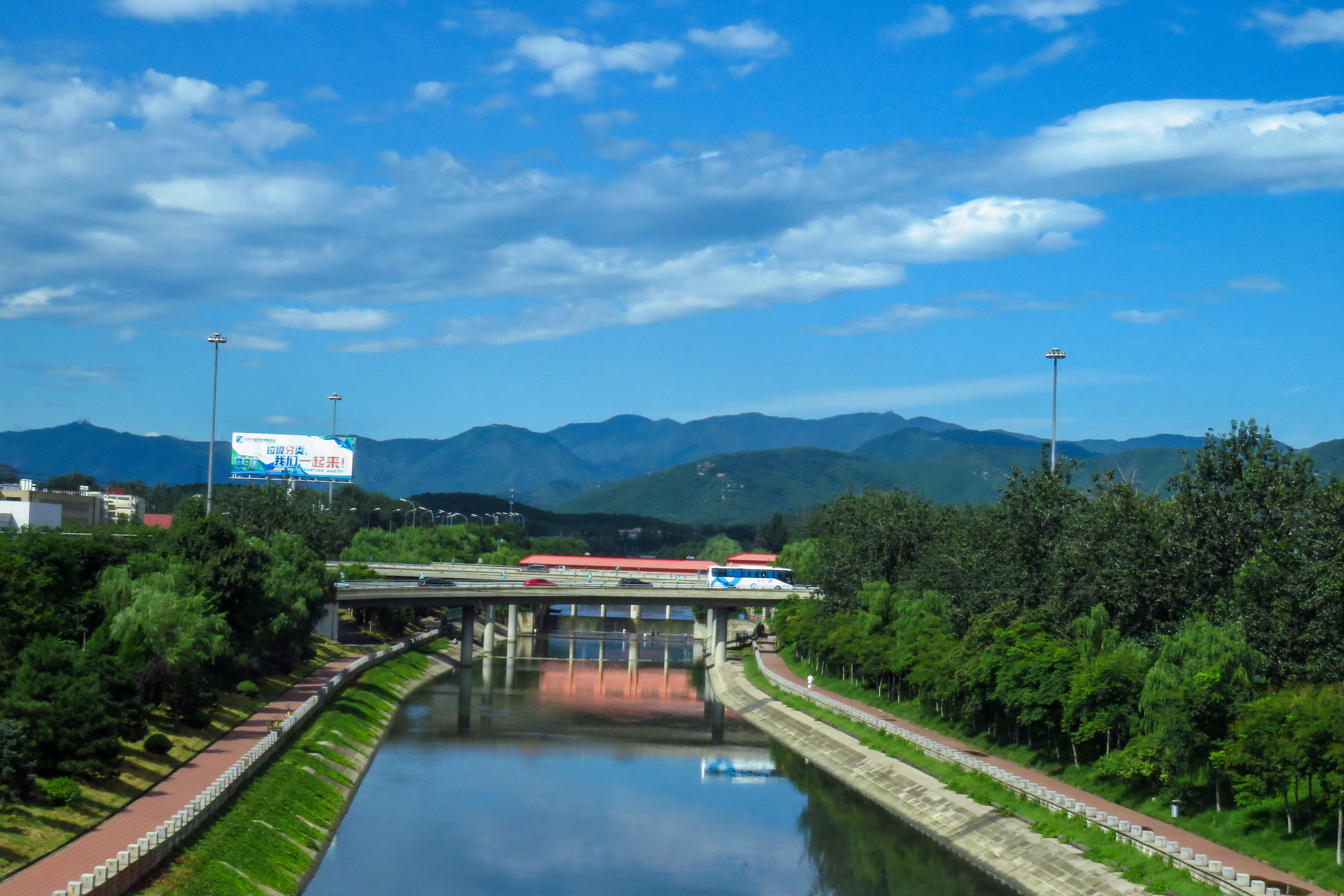 This river serves as the border between Malianwa and Qinglongqiao subdistricts.